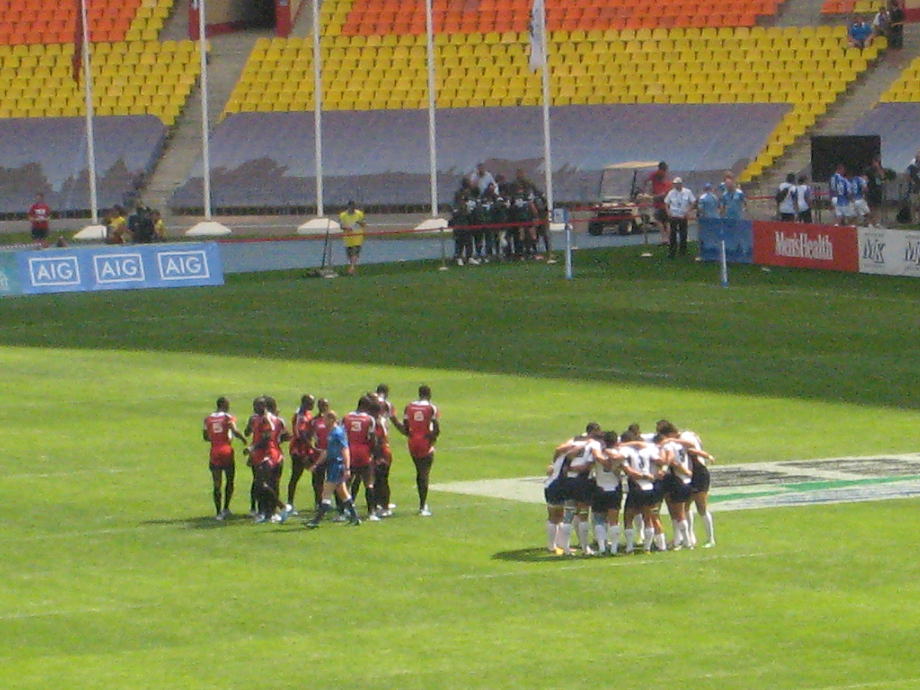 First Day of the 2013 Rugby World Cup Sevens in Moscow